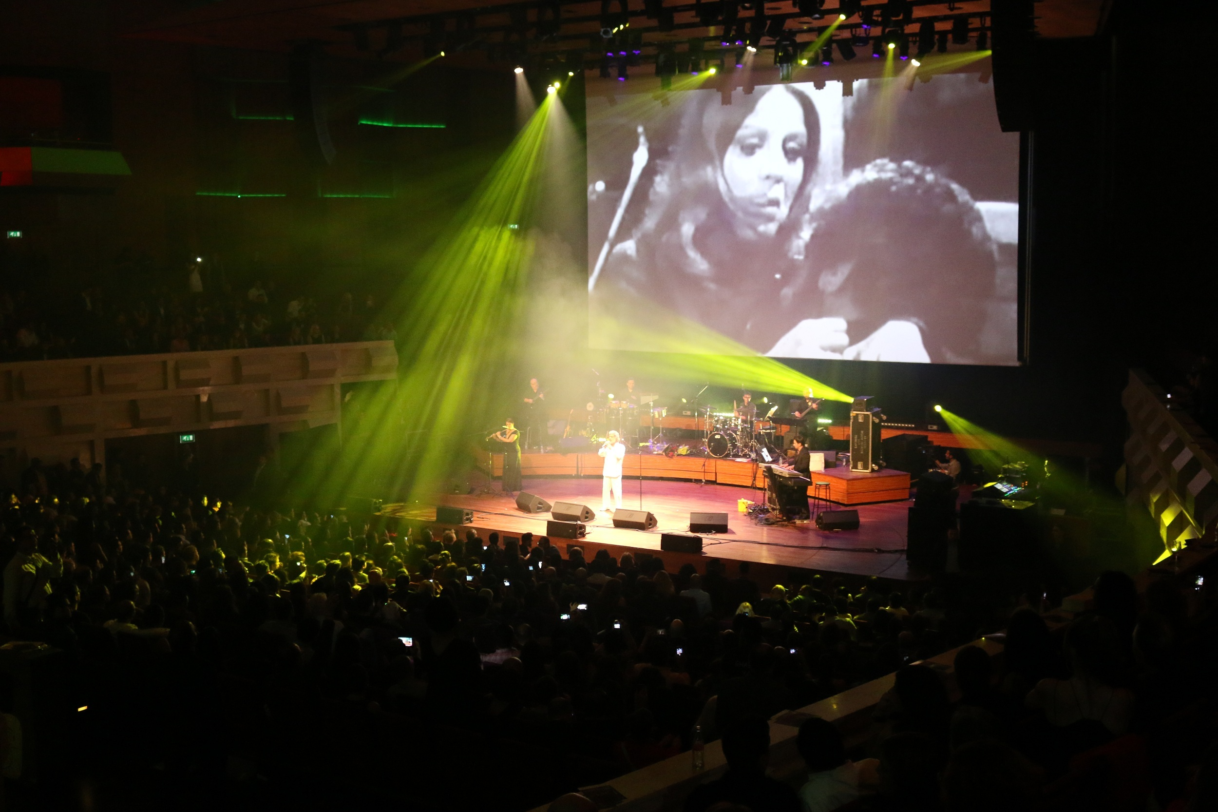 Persian Pop Star Dariush Eghbali during a concert at De Doelen Concert Hall in Rotterdam, Holland. 11 Oct. 2014. Photo: Persian Dutch Network